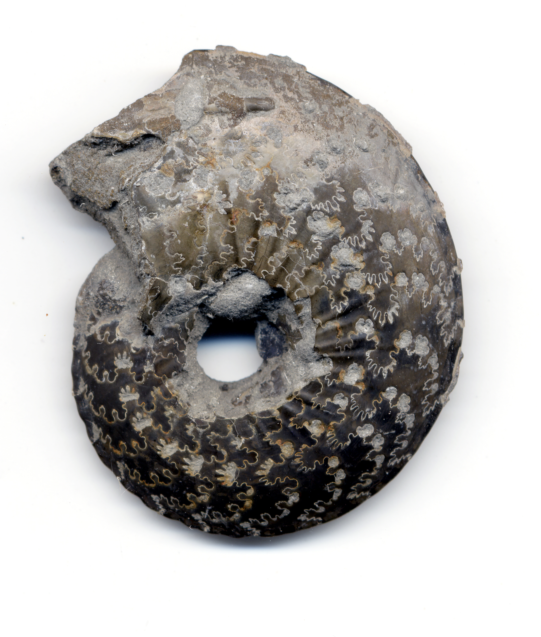 Ammonite (Oxynoticeras oxynotum) with well developed suture lines from Lower Lias rocks at Bishops Cleeve in Gloucestershire, England, UK.